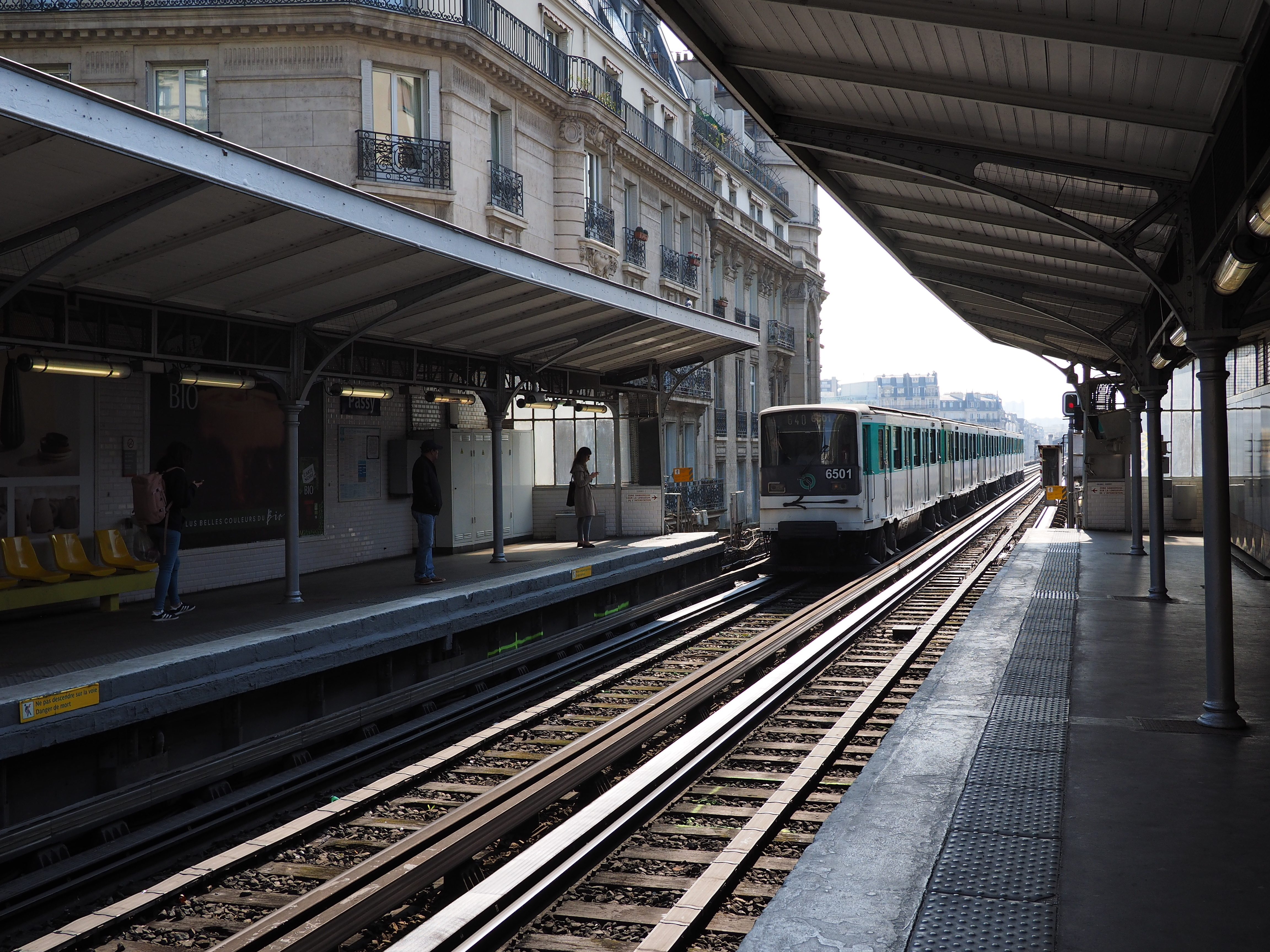 A train travelling towards Charles de Gaulle–Étoile arriving at Passy metro station